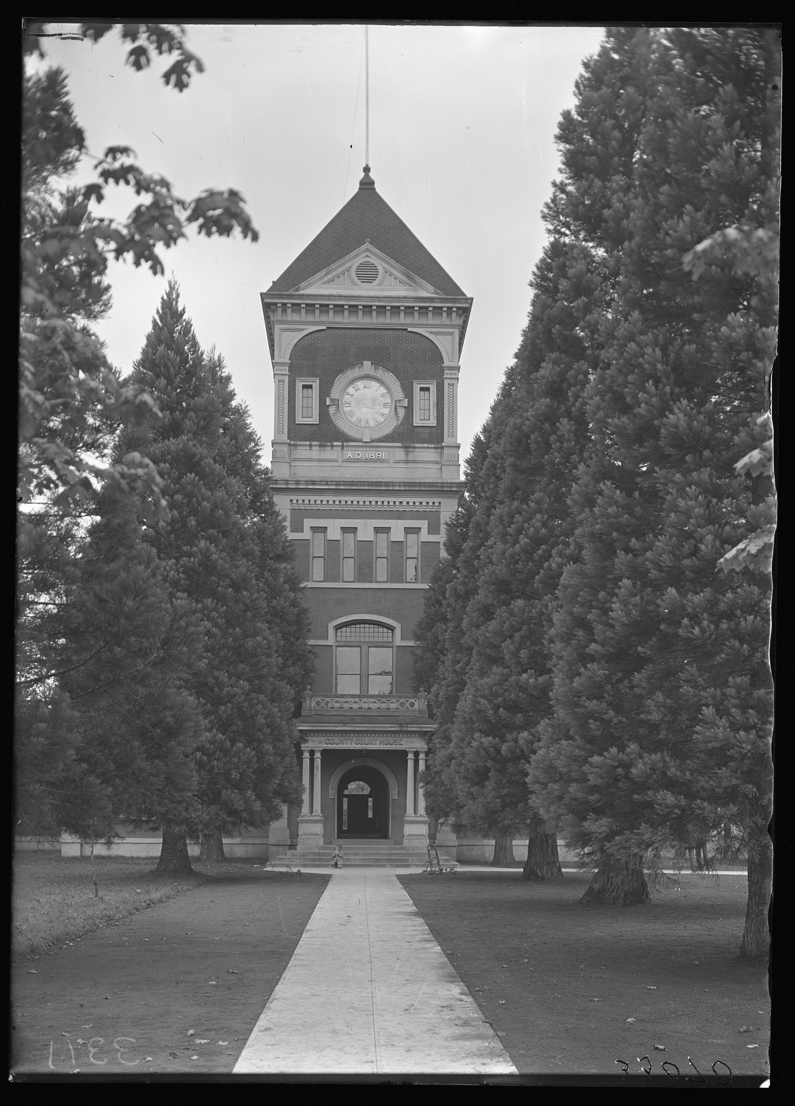 Washington County courthouse, clock tower, child sitting on steps and young redwood trees. 1910. This view is from the south, from Main Street. Name of Expedition: Huron H. Smith Expedition to Oregon Participants: Huron H. Smith Expedition Start Date: 1910 Expedition End Date: 1911 Purpose or Aims: Collecting Botany specimens, taking portraits of trees Location: Hillsboro, Washington County, Oregon, U.S.A., North America Original material: 5x7 glass negative Digital Identifier: CSB33070 Learn more about The Field Museum's